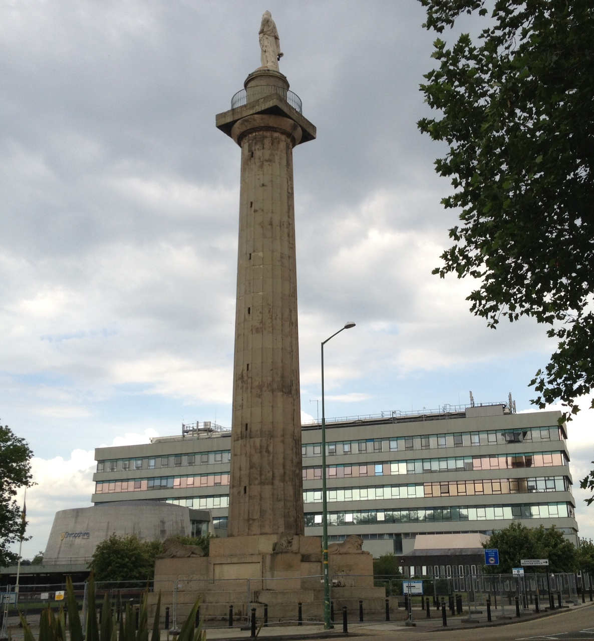 The Shirehall and Lord Hill Column in Shrewsbury, England.